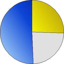 This diagram shows the results of a poll conducted in the European Union (April 19th 2002, Eurobarometer 56.2). According to the poll, 50,5% of the citizens of the EU accept nuclear energy production in the EU (marked with blue), while 25,5% do not (yellow).